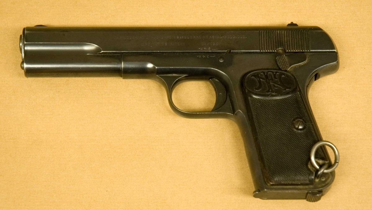 A FN Model 1903 pistol from the collectons of the Swedish Army Museum. This particular pistol was used by Gösta Benckert (1908-1990), a Swedish officer in the The Swedish Volunteer Corps, during the Winter War in Finland, 1940. It was donated to the Swedish Army Museum by Benckert's family in 1990.